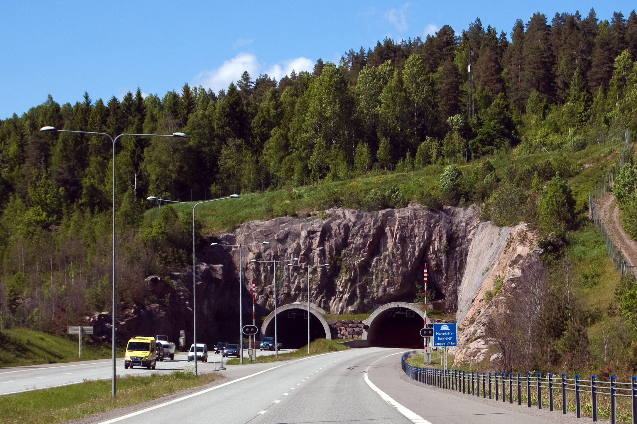 The Hanekleiv tunnel seen from the south, on E18 in Vestfold, Norway.